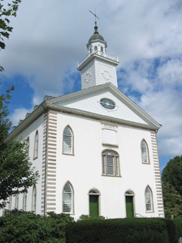 The Kirtland Temple in Kirtland, Ohio